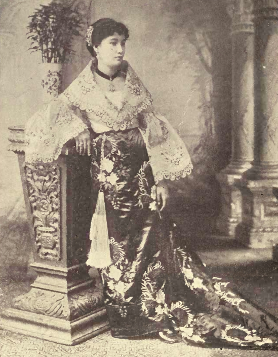 Admiral Cerveras